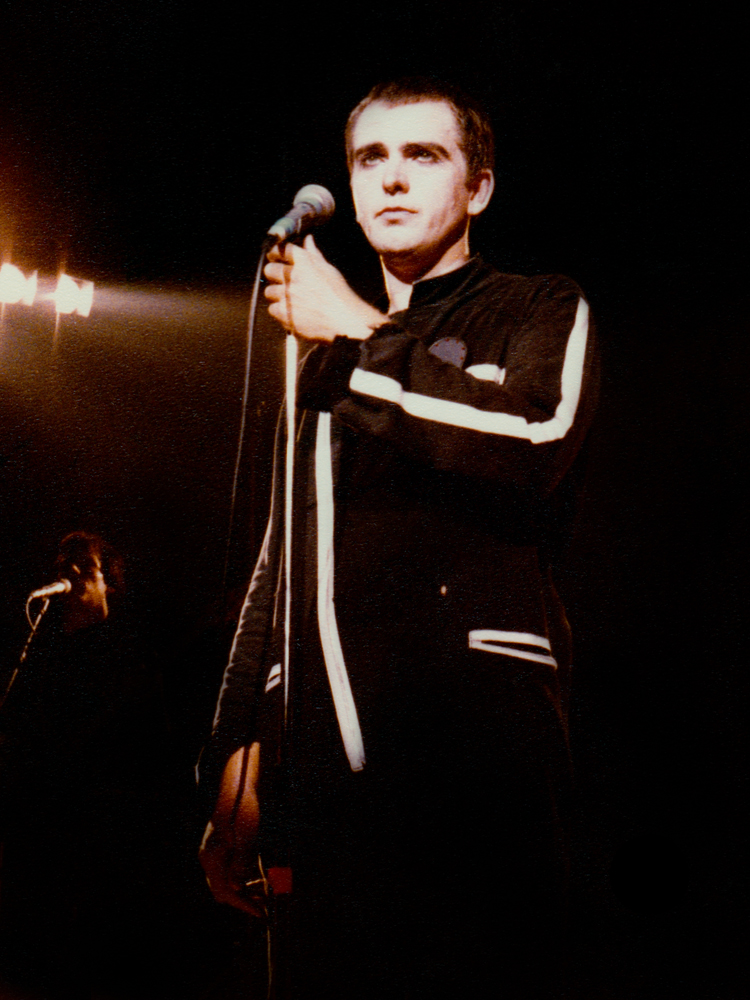 Peter Gabriel performing 'Tour of China 1984' at theatre Muziekcentrum Vredenburg, Utrecht, Netherlands, september 6th, 1980.